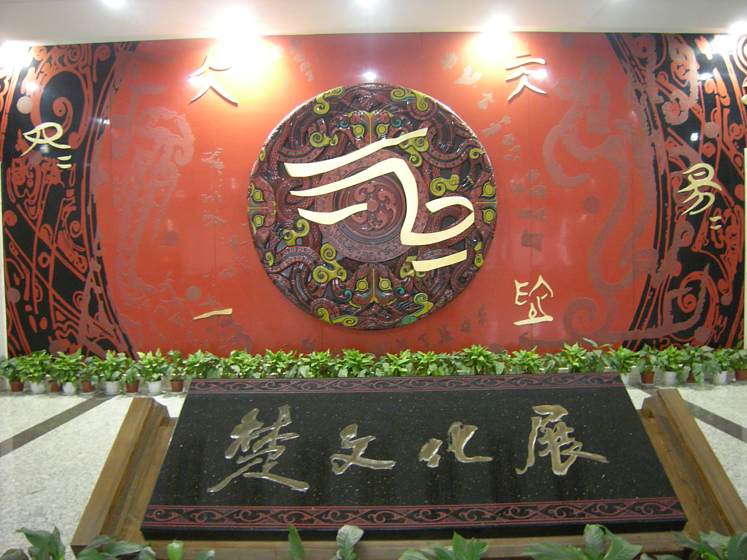 Hubei Provincial Museum in the state of Chu Culture Exhibition Hall 湖北省博物馆内的楚文化展厅